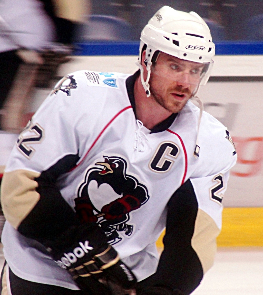 Wilkes-Barre/Scranton Penguins captain Ryan Craig during a second round AHL playoff game against the St. Johns IceCaps, May 5, 2012 at Mohegan Sun Arena at Casey Plaza.